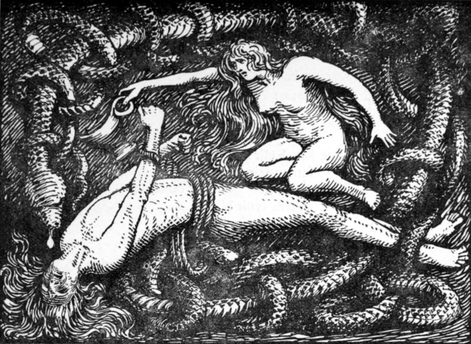 The list of illustrations in the front matter of the book gives this one the title Loki Bound (motive from the Gosforth Cross).